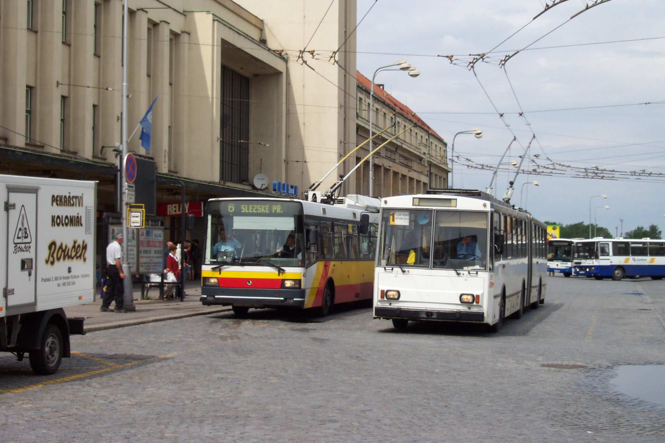 Trolleybuses at Hradec Králové, Czech Republic